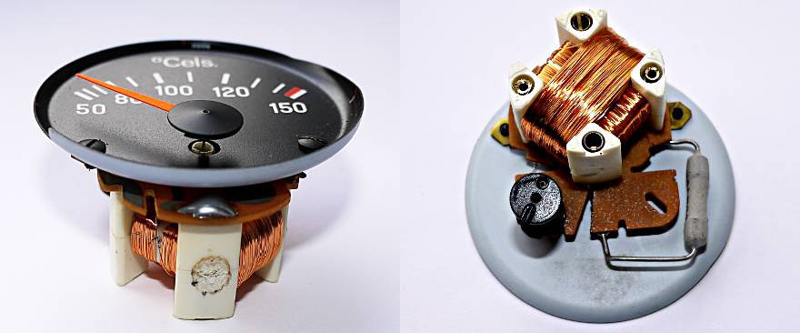 sample of a cross-coil-gauge application